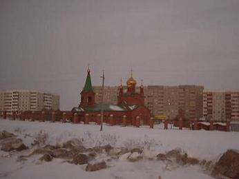 Zarinsk, Church of the Ascension of Christ.